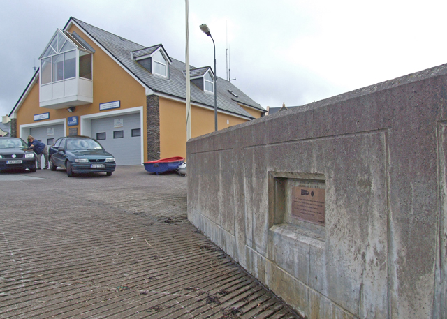 Lifeboat station and launch ramp